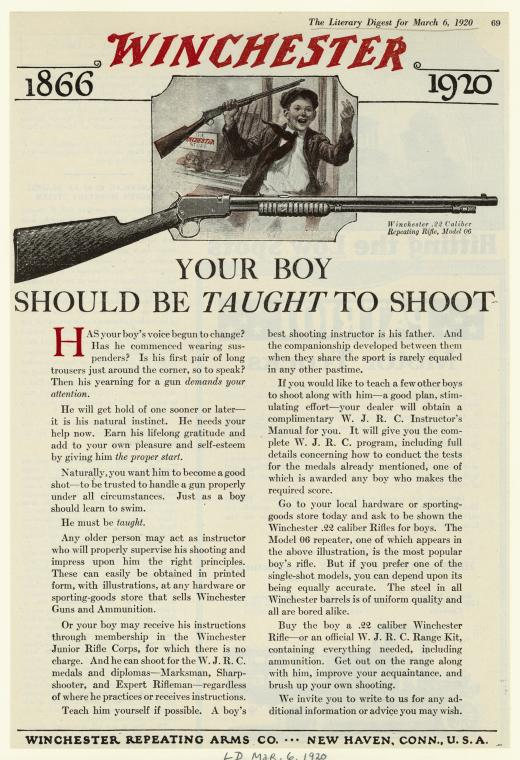 TITLE: Your boy should be taught to shoot. Content: Printed on image: "Winchester .22 caliber repeating rifle, model 06".